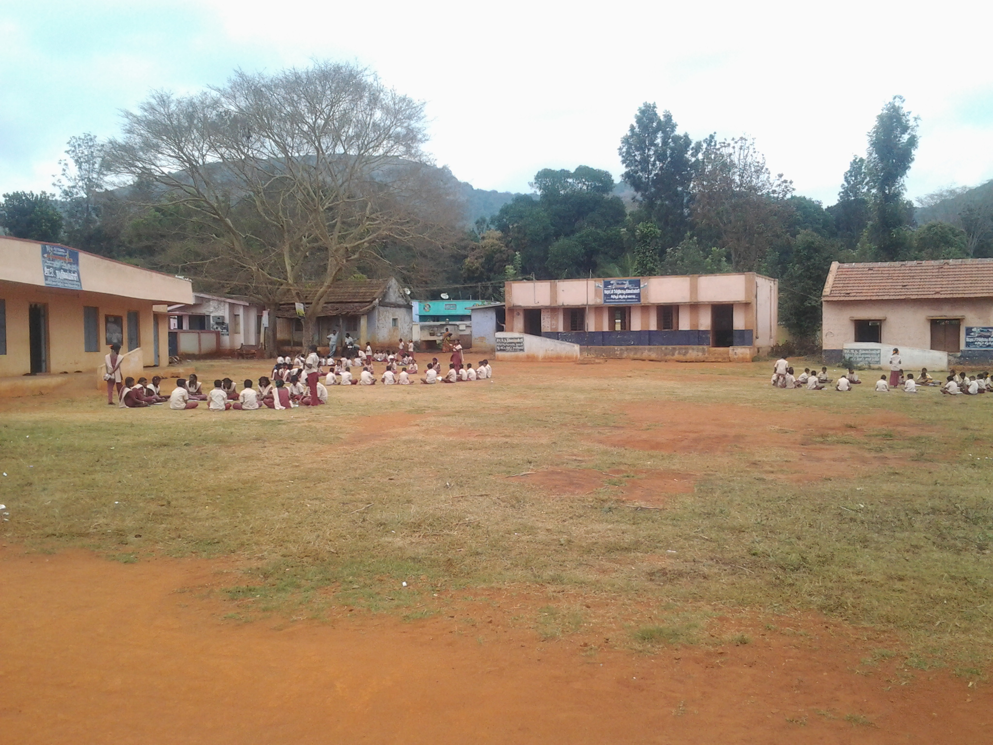 அரியூர் கிழக்குவளவு நடுநிலைப்பள்ளி,கொல்லிமலை,நாமக்கல்